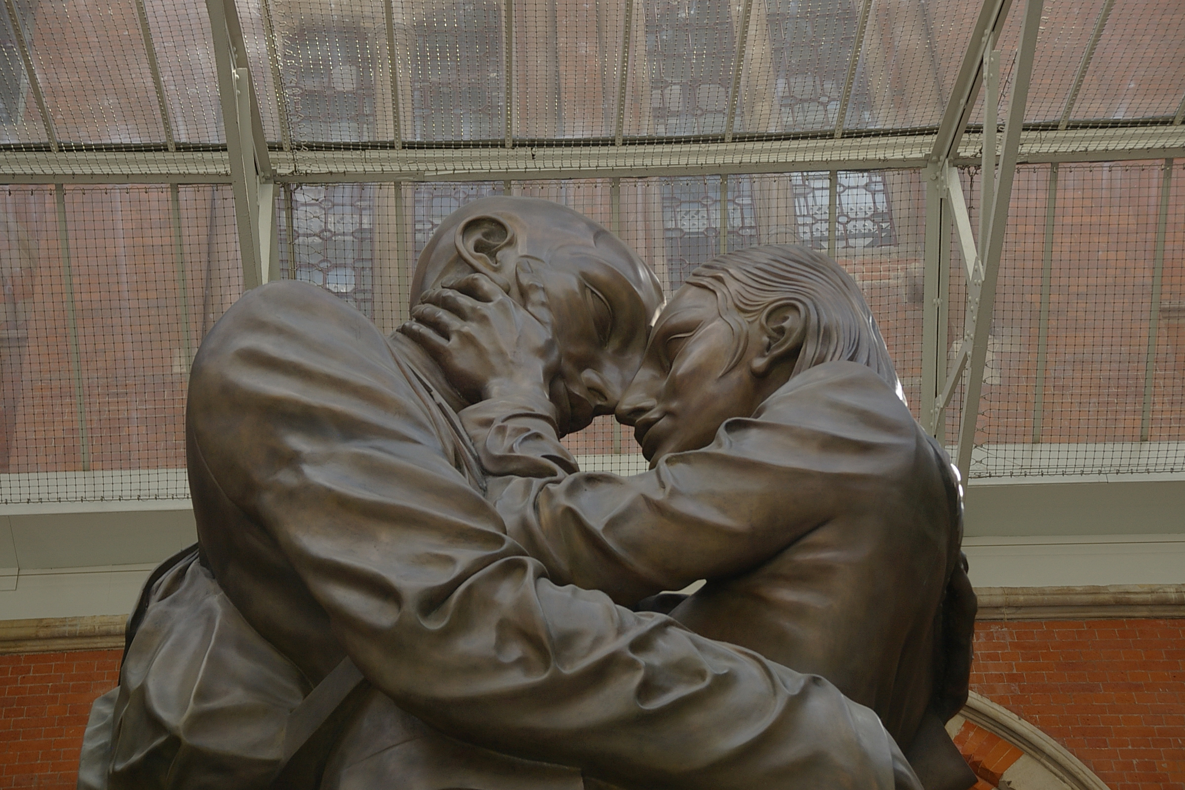 Paul Day's The Meeting Place statue at London St Pancras railway station, situated just inside the old front entrance.